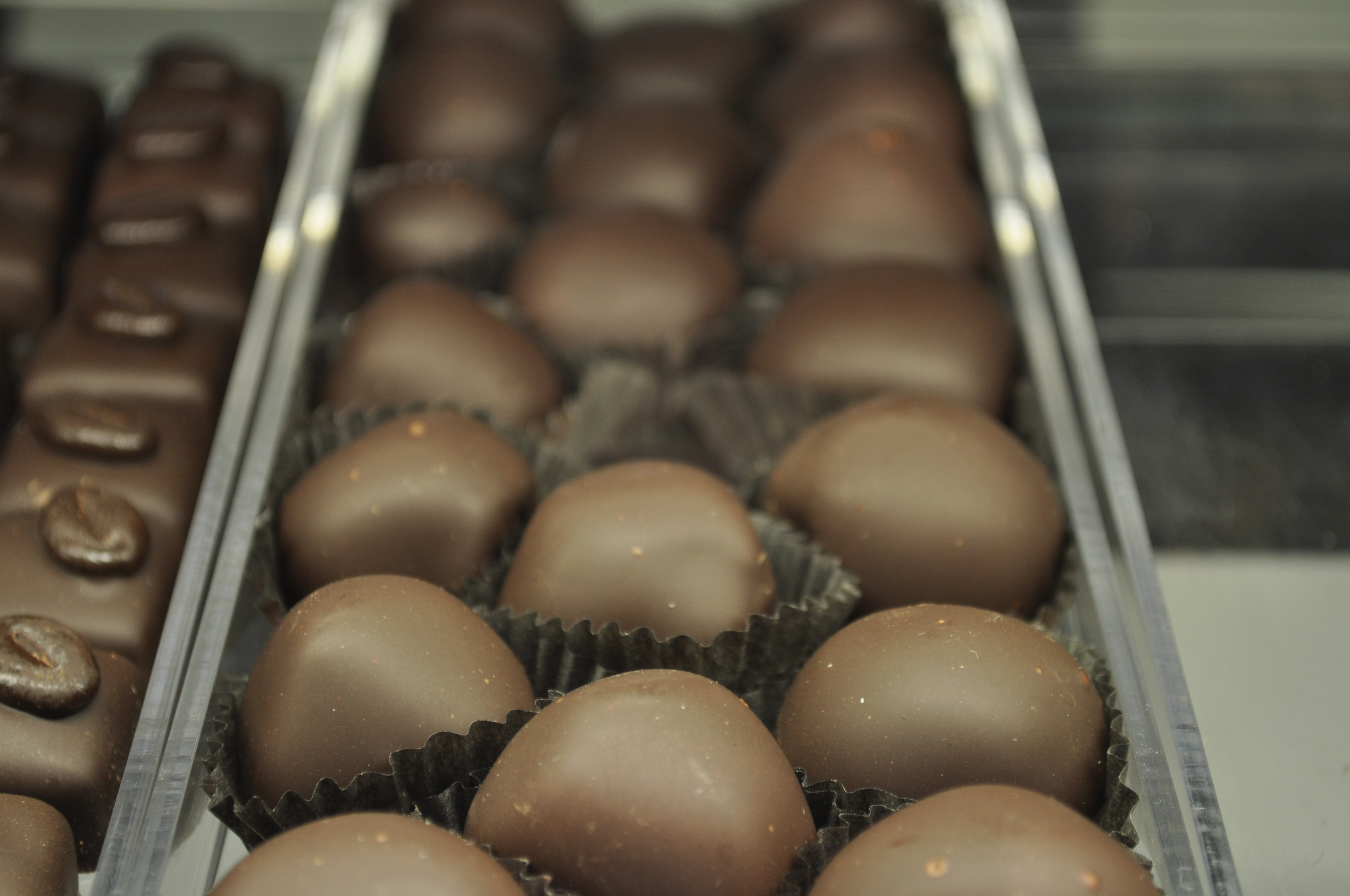 Chocolates for sale, Granville Island Public Market, Granville Island, Vancouver, BC.